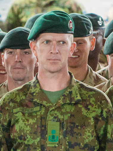 Press trip to visit the allied forces stationed in Tapa. Meetings with NATO units and key figures from the Estonian defence and allied forces